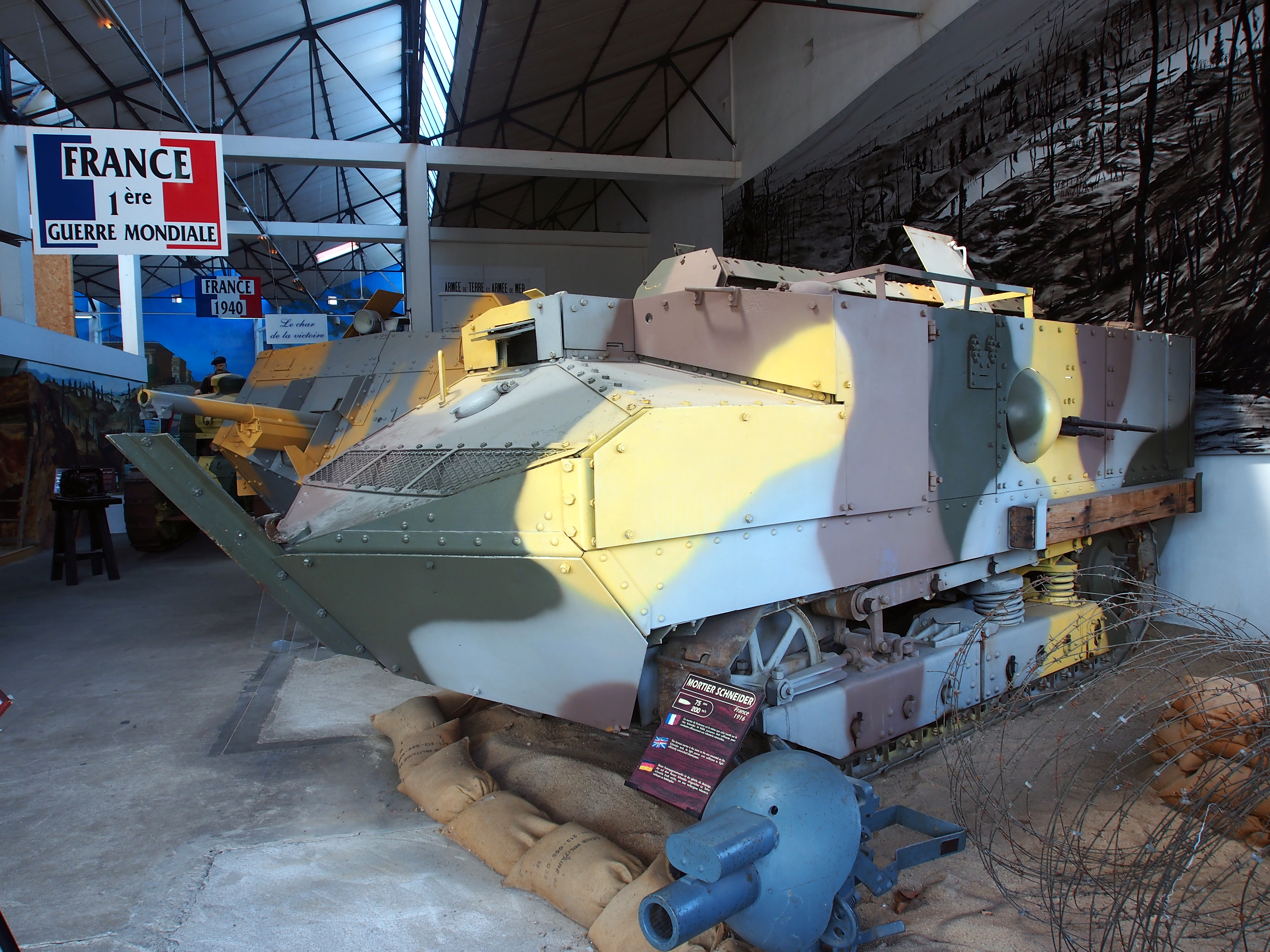 Photographed in the Musée des Blindés, France.